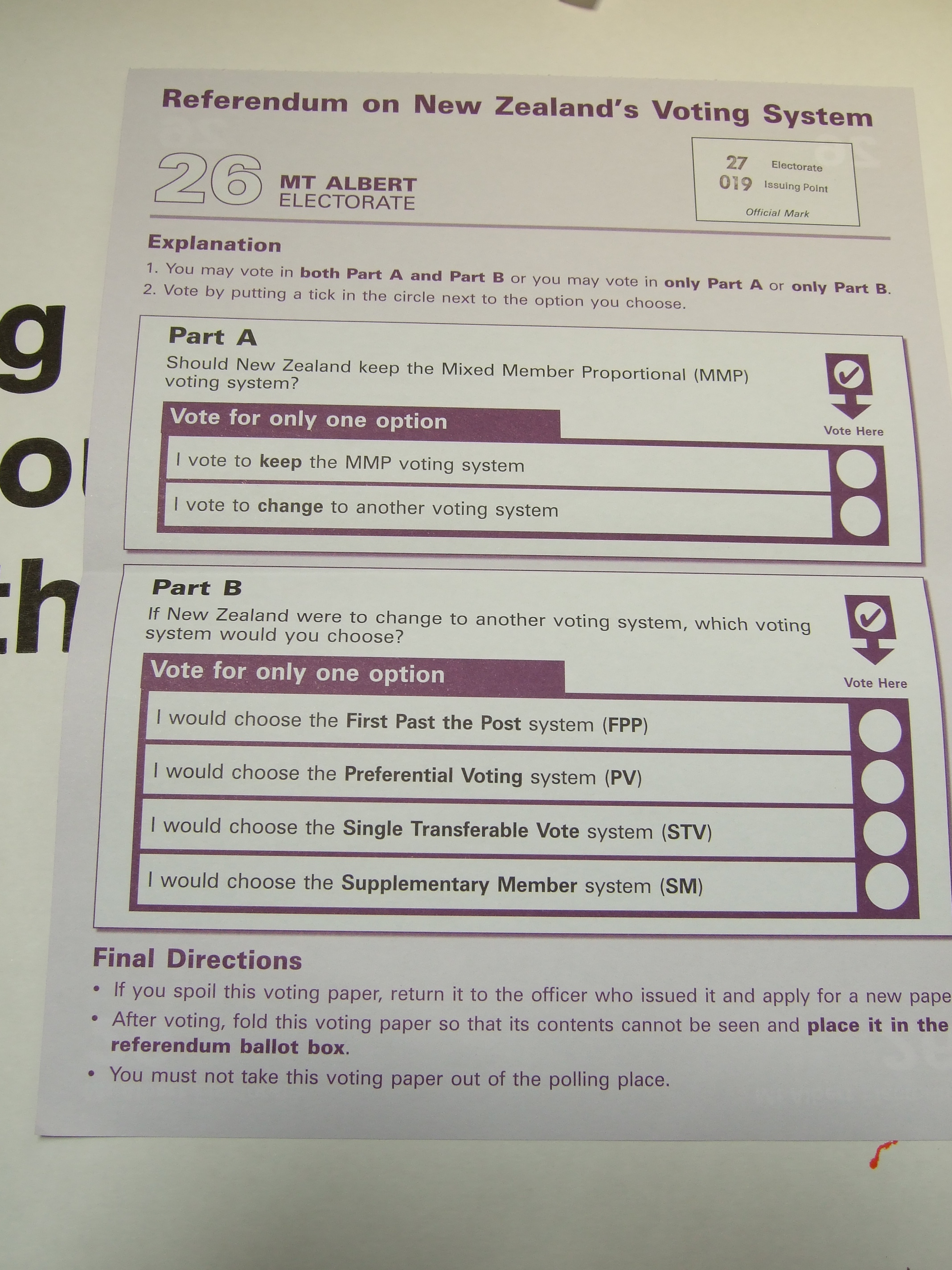 Ballot for Voting Systems referendum in 2011 New Zealand General election